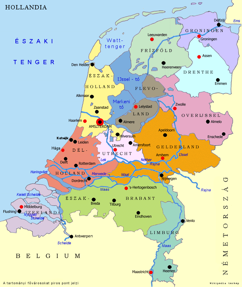 The red dots are the capitals of the provinces. The capital of the Netherlands, Amsterdam, has a red/black dot. The rest are the bigger cities.